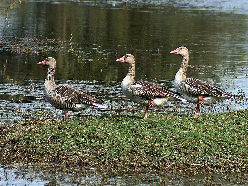 Greylag Goose Anser anser at Bharatpur, Rajasthan, India.